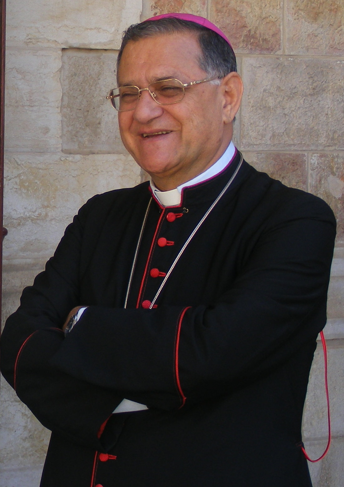 His Beatitude Fouad Twal, Latin Patriarchate of Jerusalem